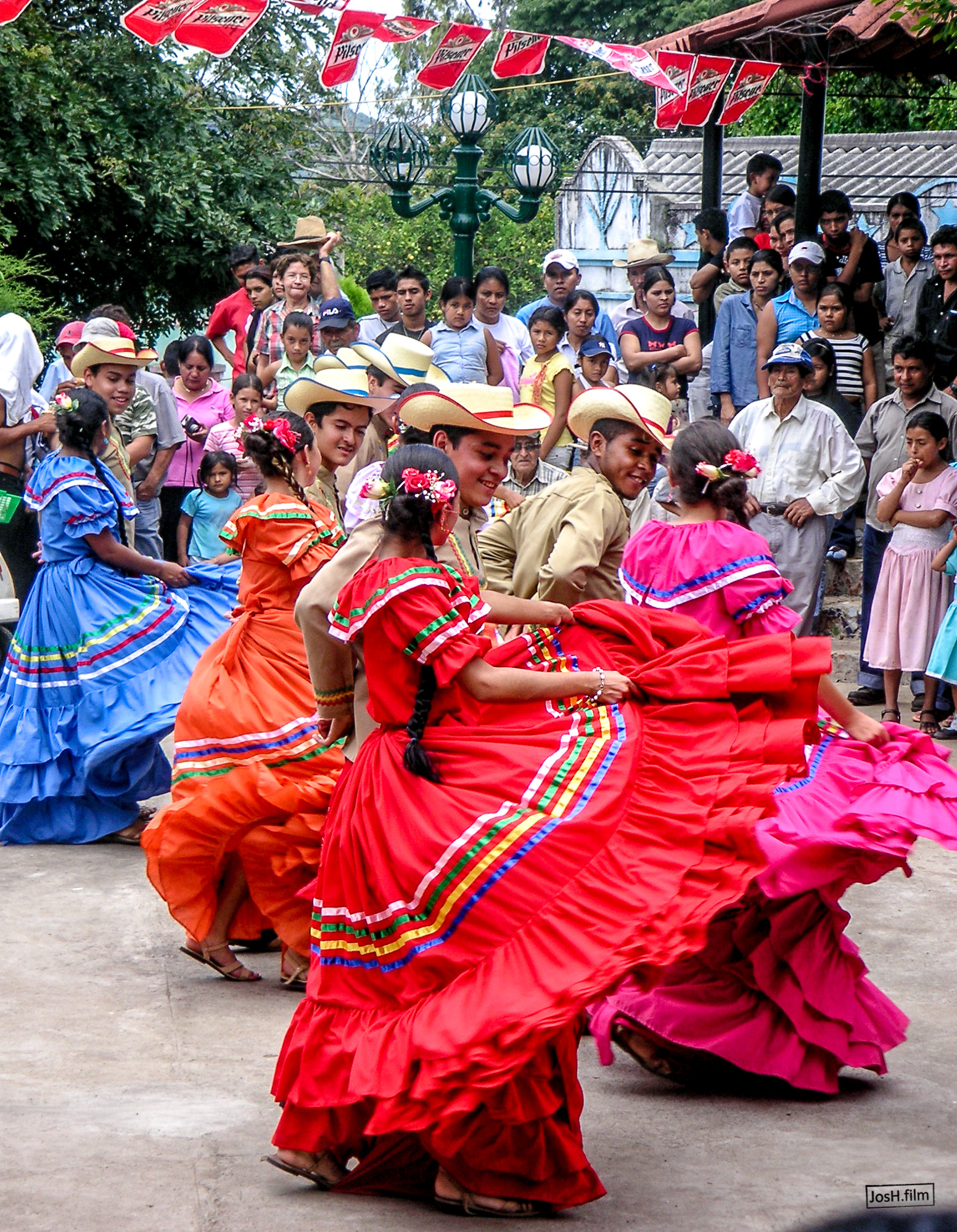 Winter Festival celebration in Perquín.